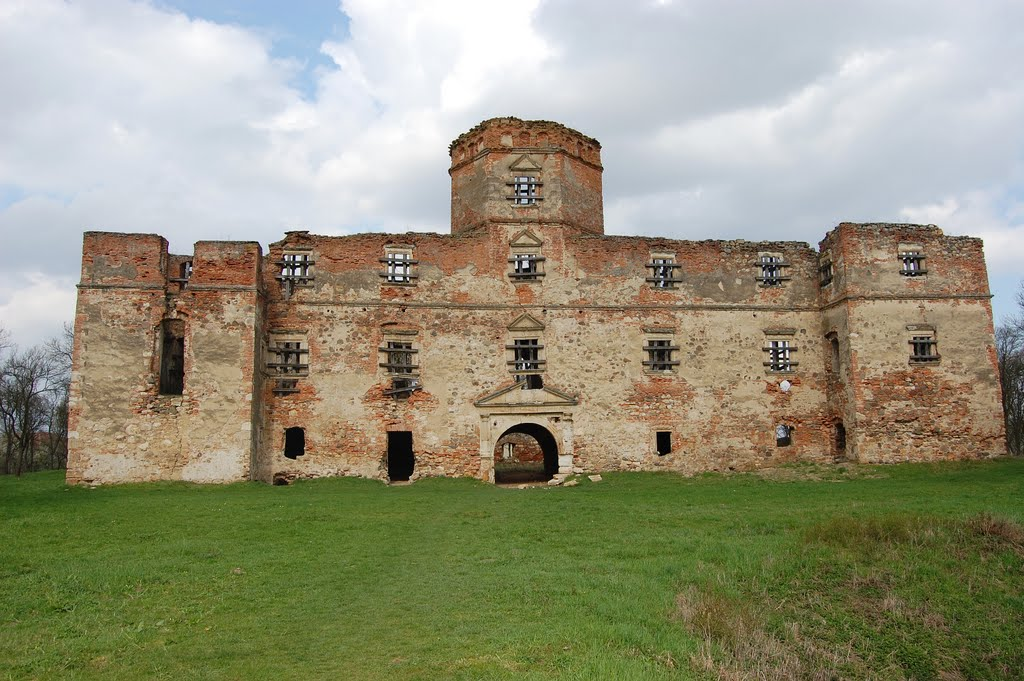 the former fortified mansion of Medieșu Aurit, Romania